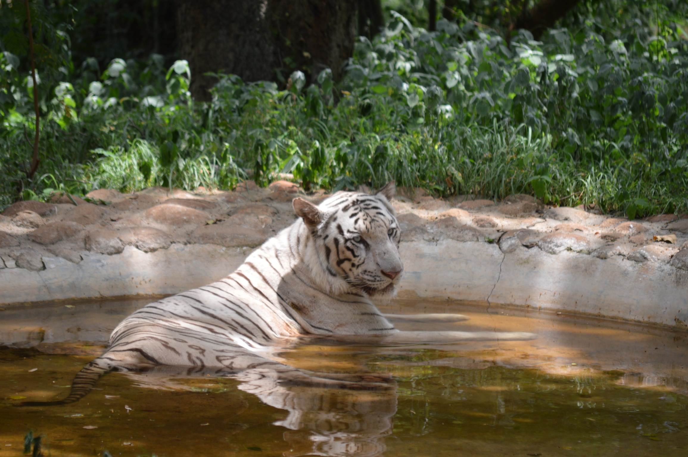 It's too hot